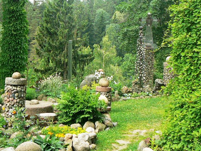 Gabions. Small Architectural Forms. Molėtai Observatory. Lithuania